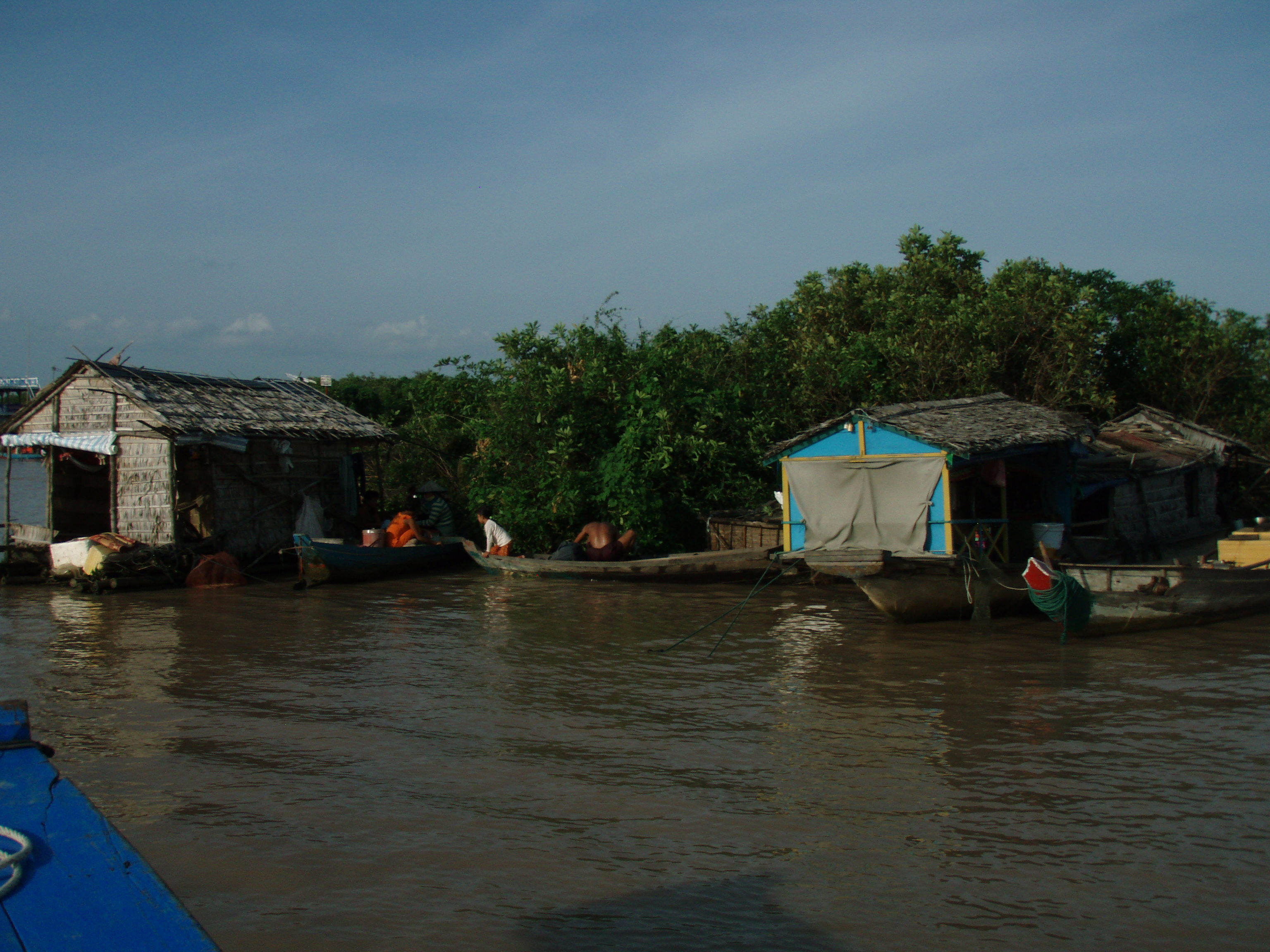 Living on the River outside Siem Reap Cambodia